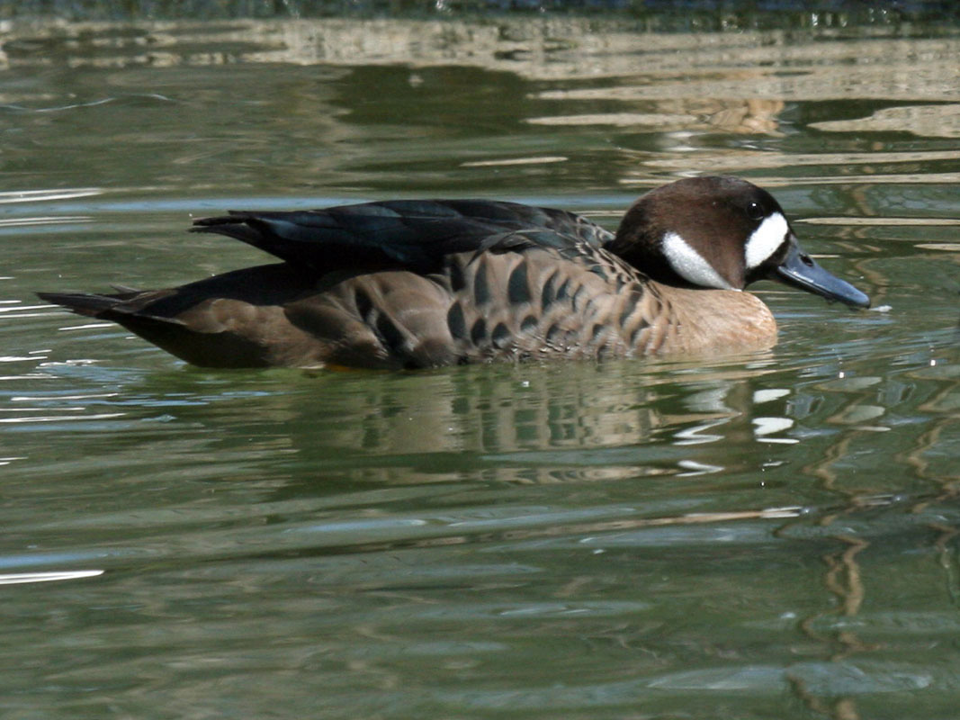 Bronze-winged Duck (Speculanas specularis) at Sylvan Heights Waterfowl Park in Scotland Neck, North Carolina.